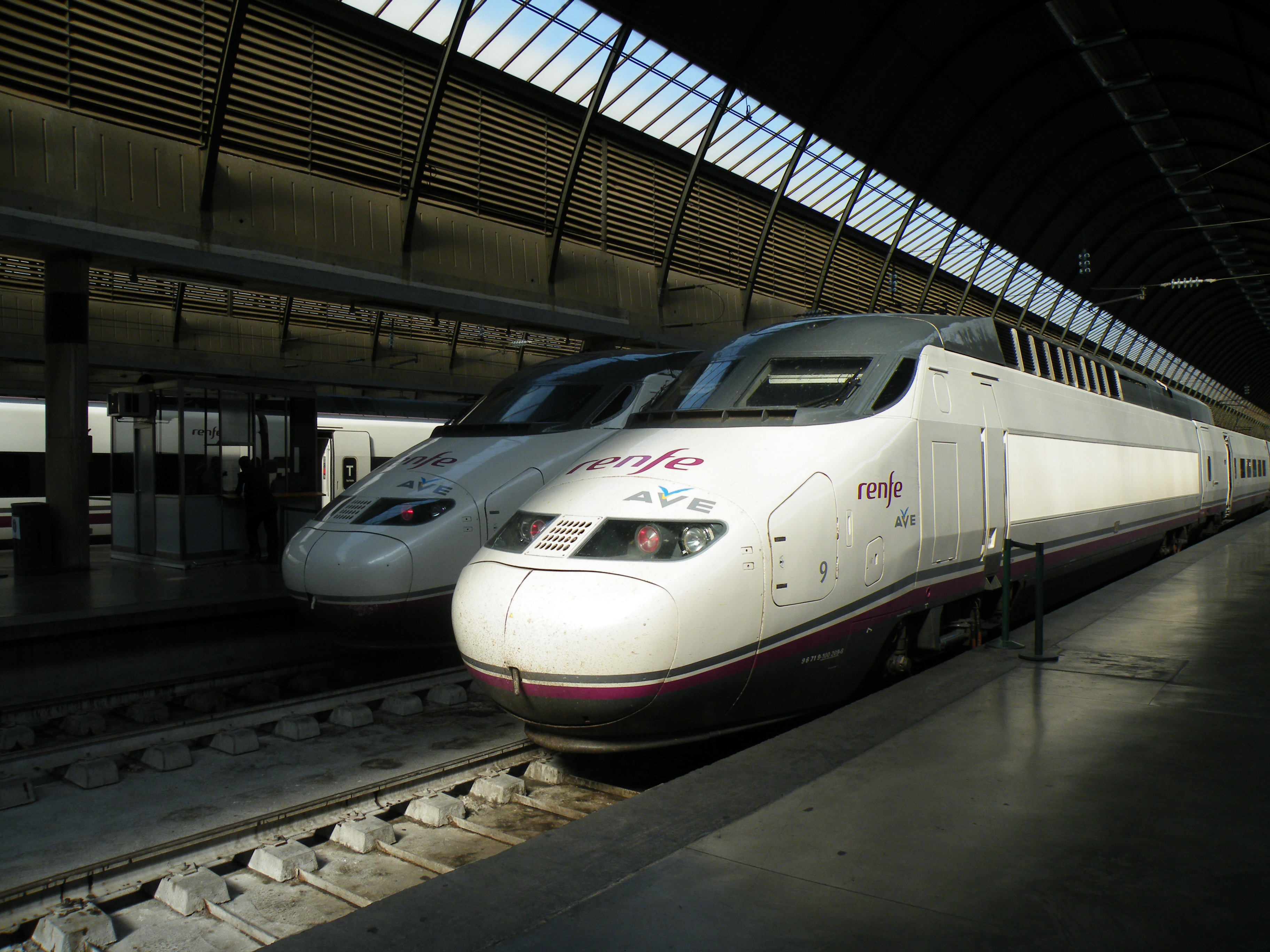 AVE class 100 in Seville's Santa Justa Station.